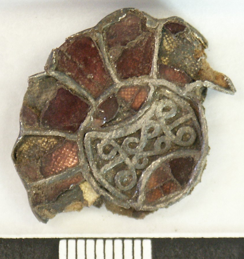 Fragment of a composite silver disc brooch of rosette shape, with inlaid garnets and silver filigree ornament. Six of twelve trapezoidal cells are extant, each with a convex outer edge and set with a cloisonné garnet on pointillé gold foil. These radiate from a circle containing two elliptical cells set with cloisonné garnets and a central panel with silver wire spirals on a silver backplate. Where the radiating cells have been broken, reddish brown material can be seen below the gold foil. The whole of the reverse is covered by a separate sheet back plate, the outer edge of which is cusped to follow the shape of the cells. No means of attachment is evident, but parts of the backplate are missing. An imported Frankish type, cf. MacGregor 1997, 119, cat. nos. 58.1 and 2; Everson 1987, 47, fig. 15).Estimated diameter 28mm. Thickness 4mm. Weight 3.75g. Mid 6th century.